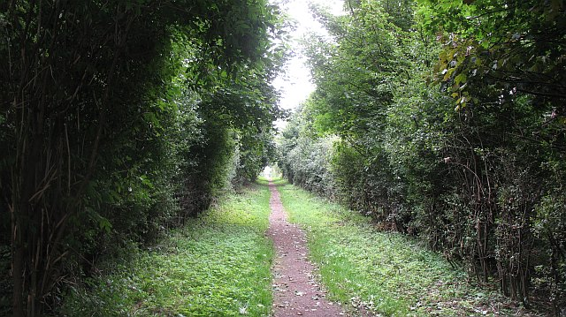 Tranent to Cockenzie Wagonway Looking uphill along the trackbed of one of the world's oldest railways dating back to 1722. It was used to export coal from Cockenzie harbour, using horse drawn waggons on wooden rails. A modern railway nearby brings coal into Cockenzie today, but to feed the power station. This is the site of the Battle of Prestonpans (1745) and it has been said that the first use of a railway in warfare occurred here.